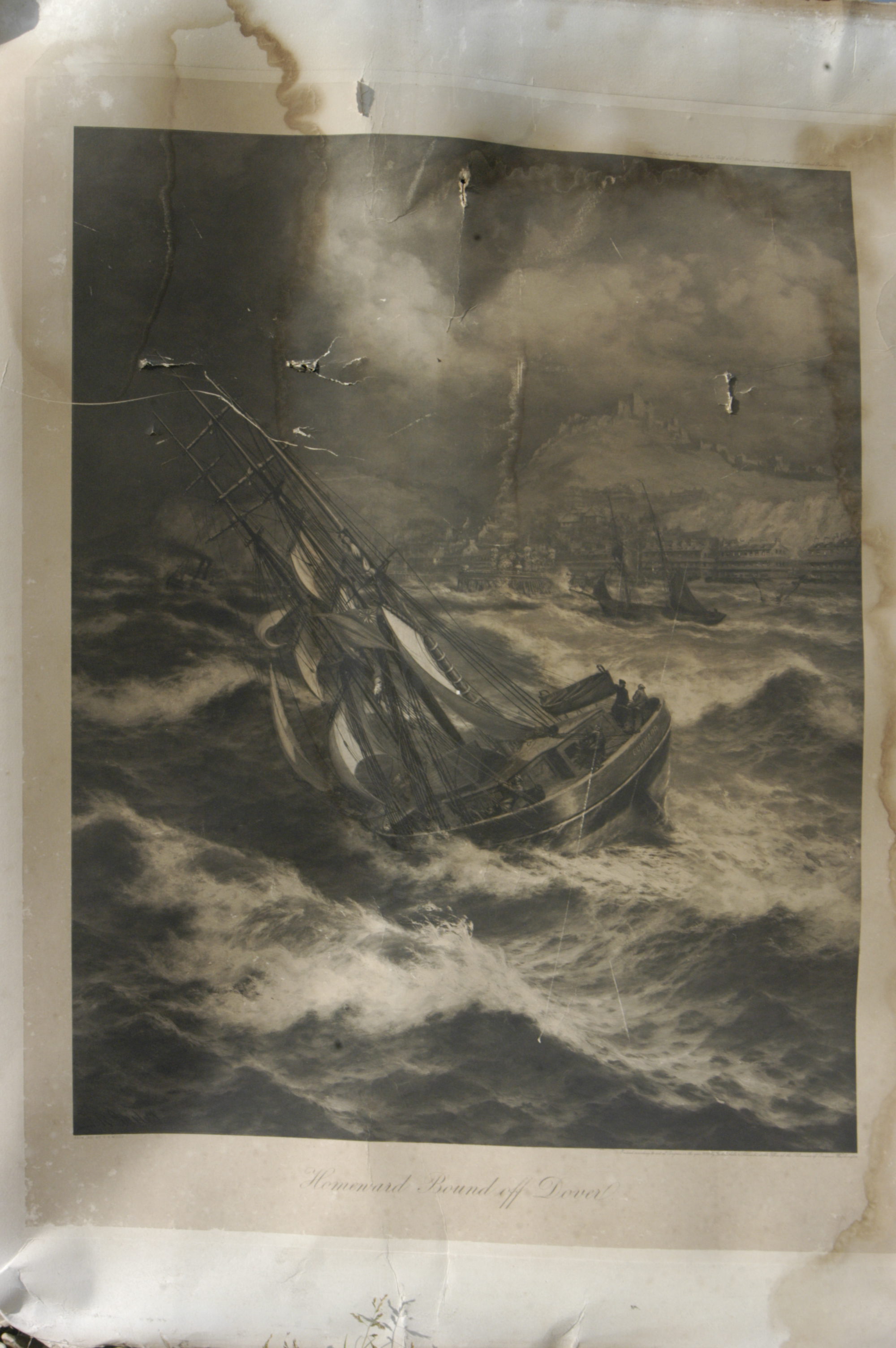 Photo (by me, R. de Salis, Rodolph (talk) 23:24, 20 October 2015 (UTC)) of a large print after a painting by Thomas Rose Miles (1844-1916), circa 1895.